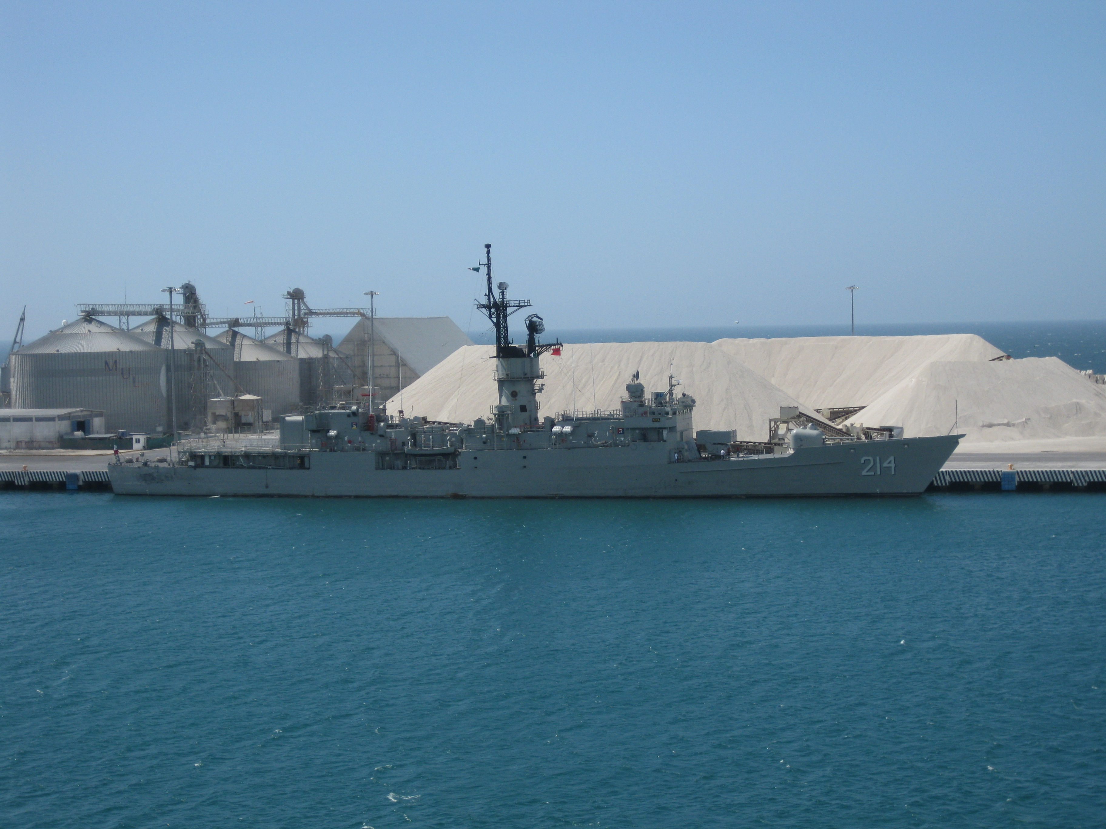 Mexican Navy frigate 214, ARM Mina